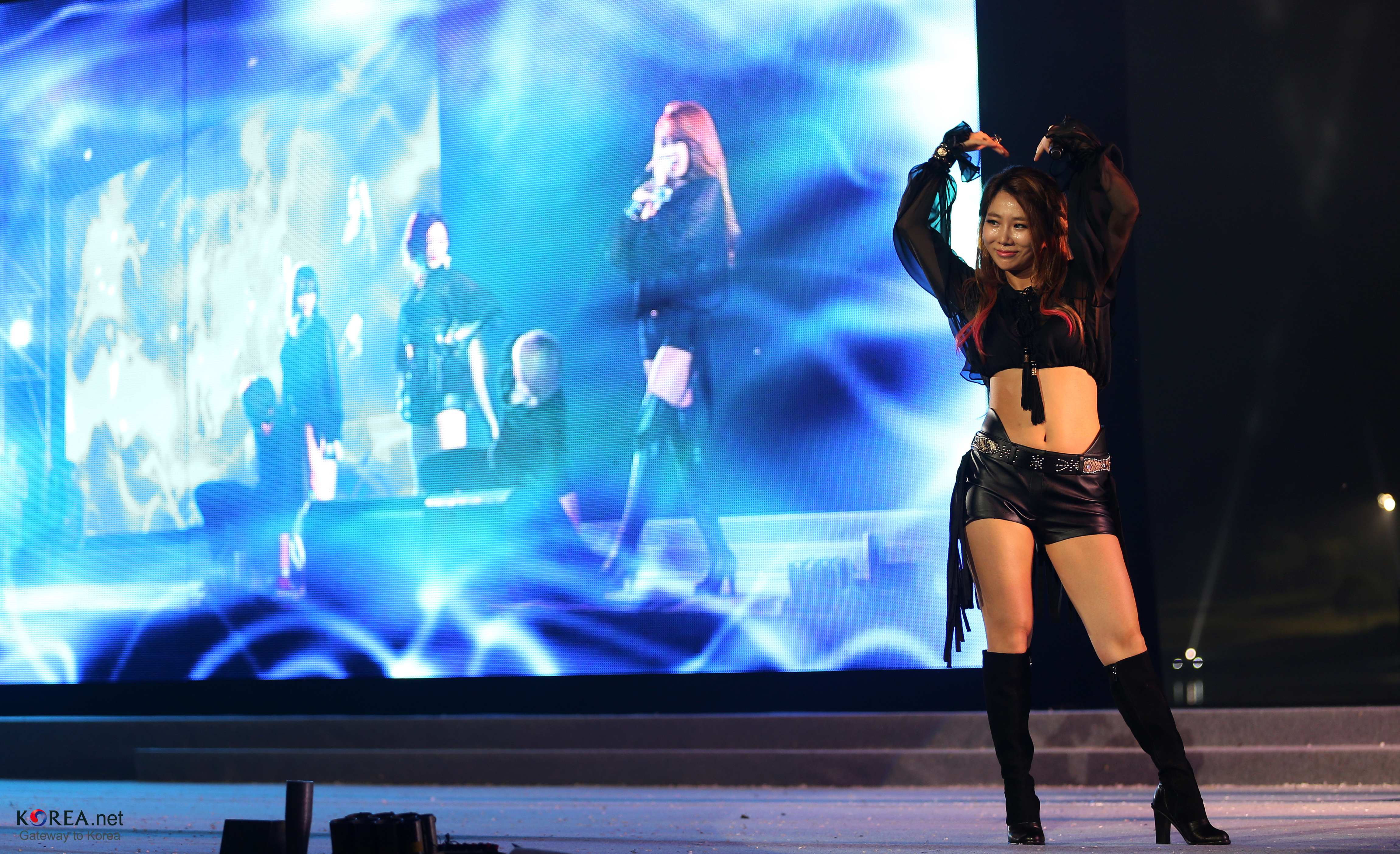 The 2013 World Rowing Championships The opening ceremony. K-POP group Brown Eyed Girls performs to celebrate the 2013 World Rowing Championship. Tangeum Lake in Chungju, Chungcheongbuk-do 2013.08.24. – 08.25. Related Article -English- World Rowing Championships kicks off in Chungju -中文- 2013忠州世界赛艇锦标赛开幕 - tiếng Việt- Giải Vô địch Đua thuyền Thế giới khai mạc tại Chungju - Deutsch- Ruder-Weltmeisterschaften in Chungju haben begonnen Ministry of Culture, Sports and Tourism Korean Culture and Information Service ( JEON HAN 2013 충주세계조정선수권대회 개막식 브라운아이드걸스가 2013 충주세계조정선수권대회 개막 축하 공연을 펼치고 있다. 충주 탄금호 국제조정경기장 -코리아넷 기사- 2013 충주세계조정선수권대회, “Rowing(로잉) 시작됐다” 문화체육관광부 해외문화홍보원 코리아넷 전한